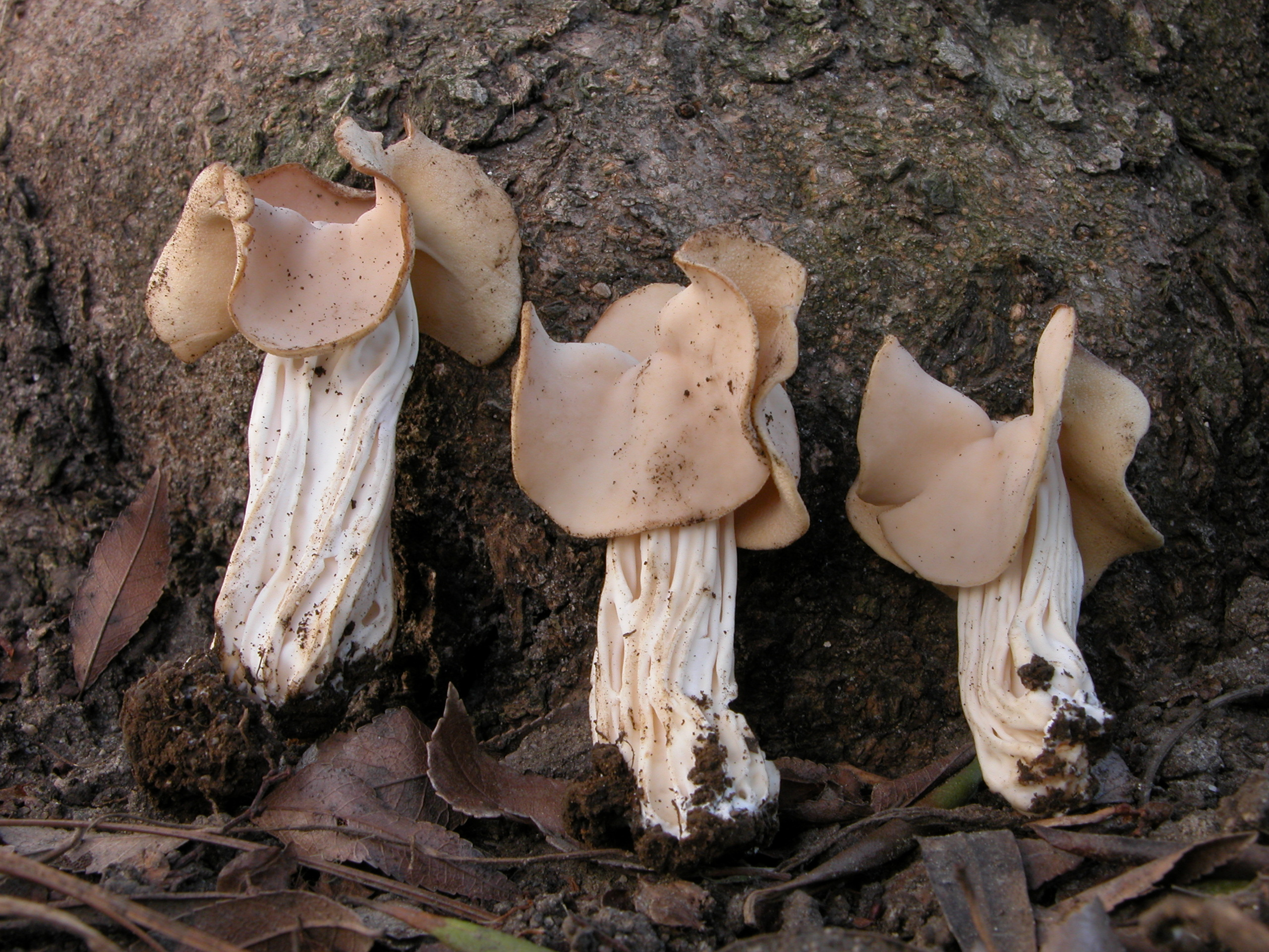 Helvella crispa (Scop.) Fr.